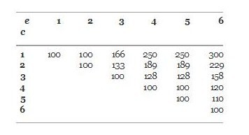 wagner whitin